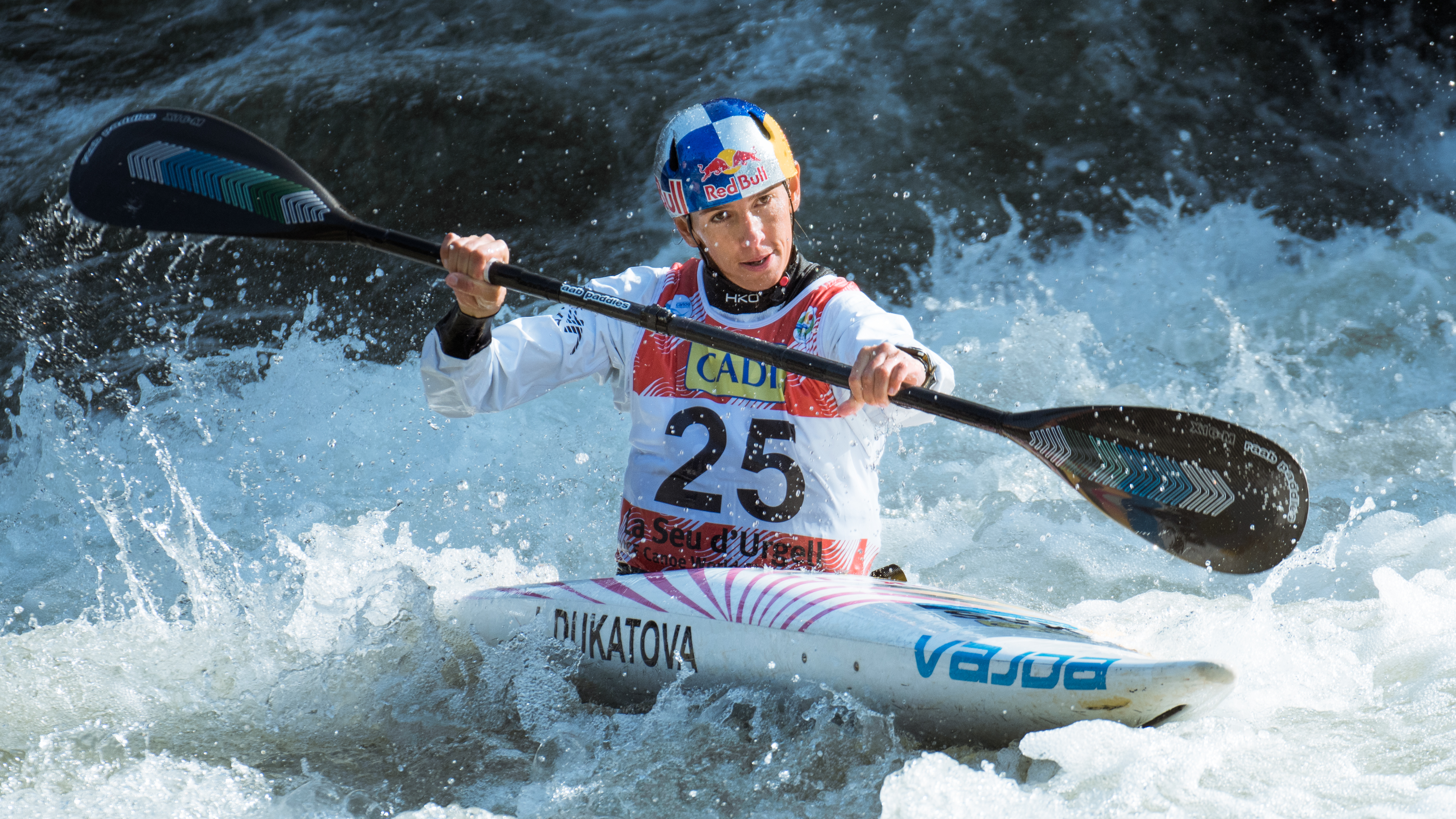 Jana Dukátová during the 2019 Canoe Slalom World Championships in La Seu d'Urgell, Spain.